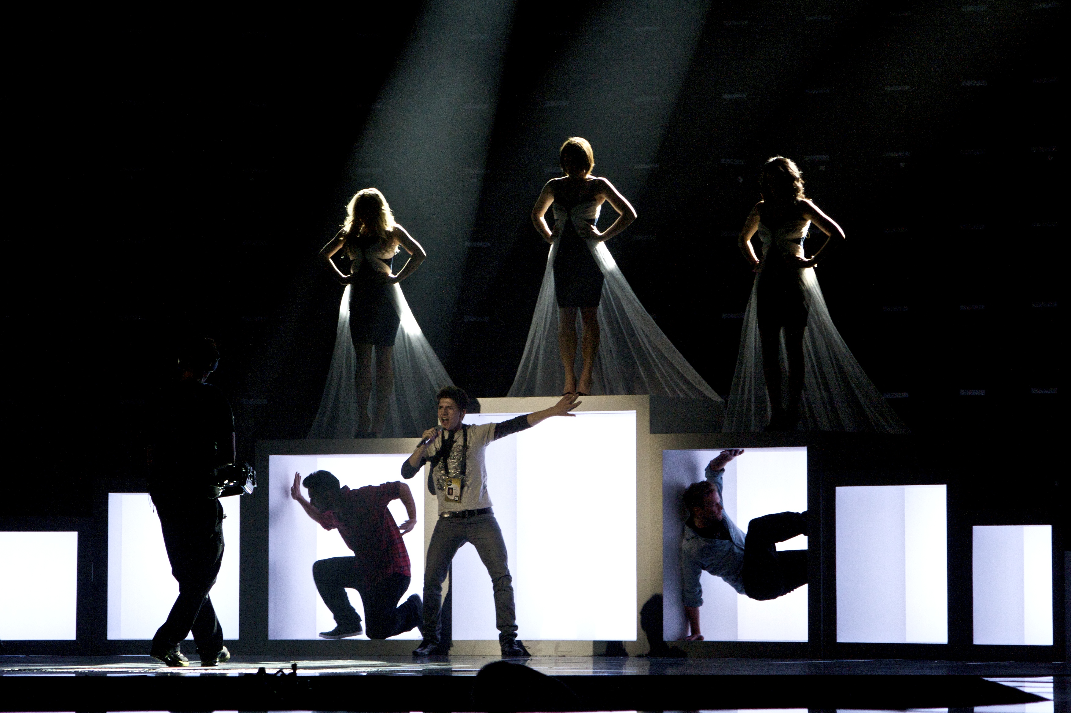 Josh Dubovie during rehearsals by Vincent Hasselgår